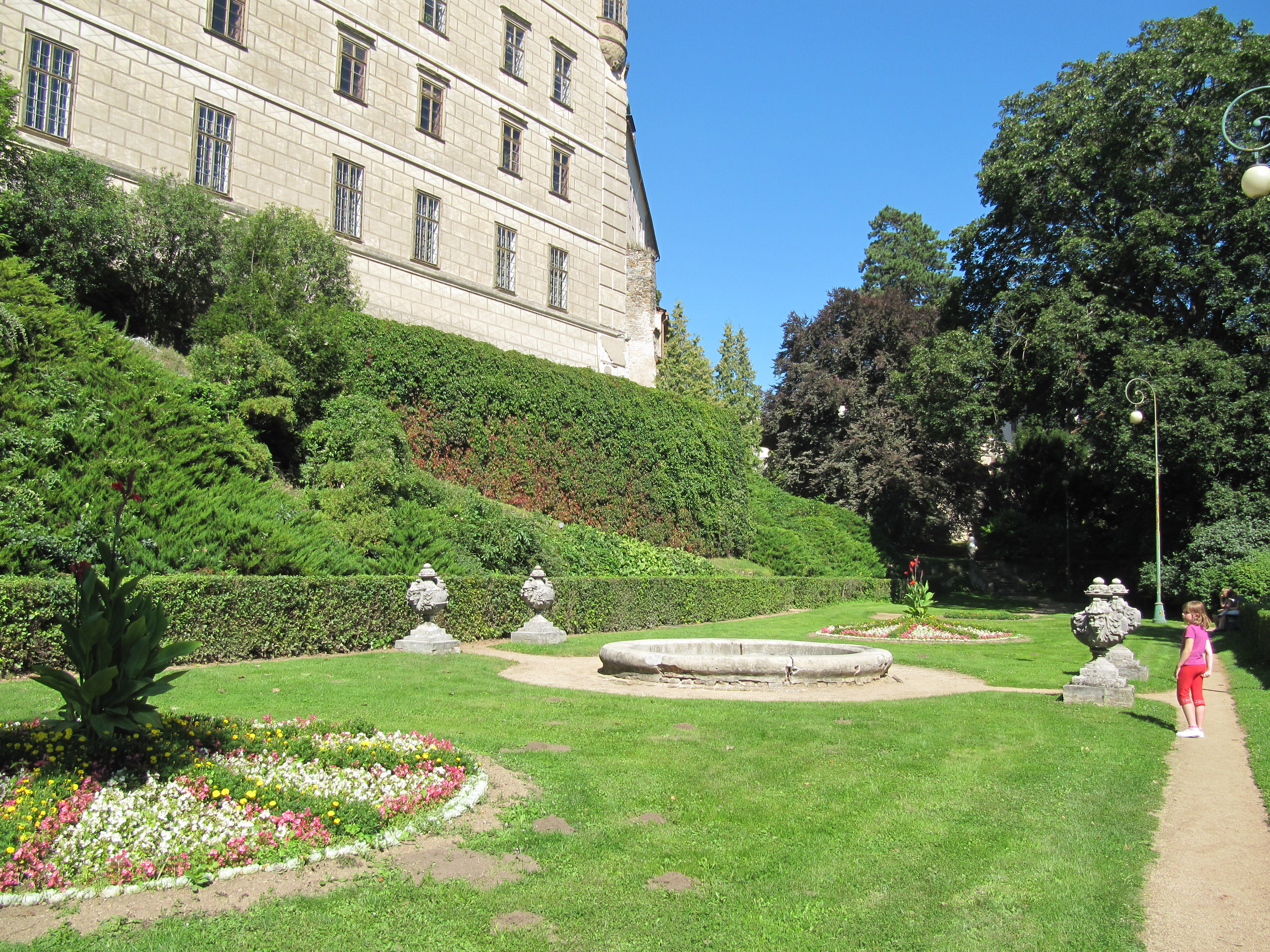 Náměšť nad Oslavou, Třebíč District, Czech Republic. Castle Park.